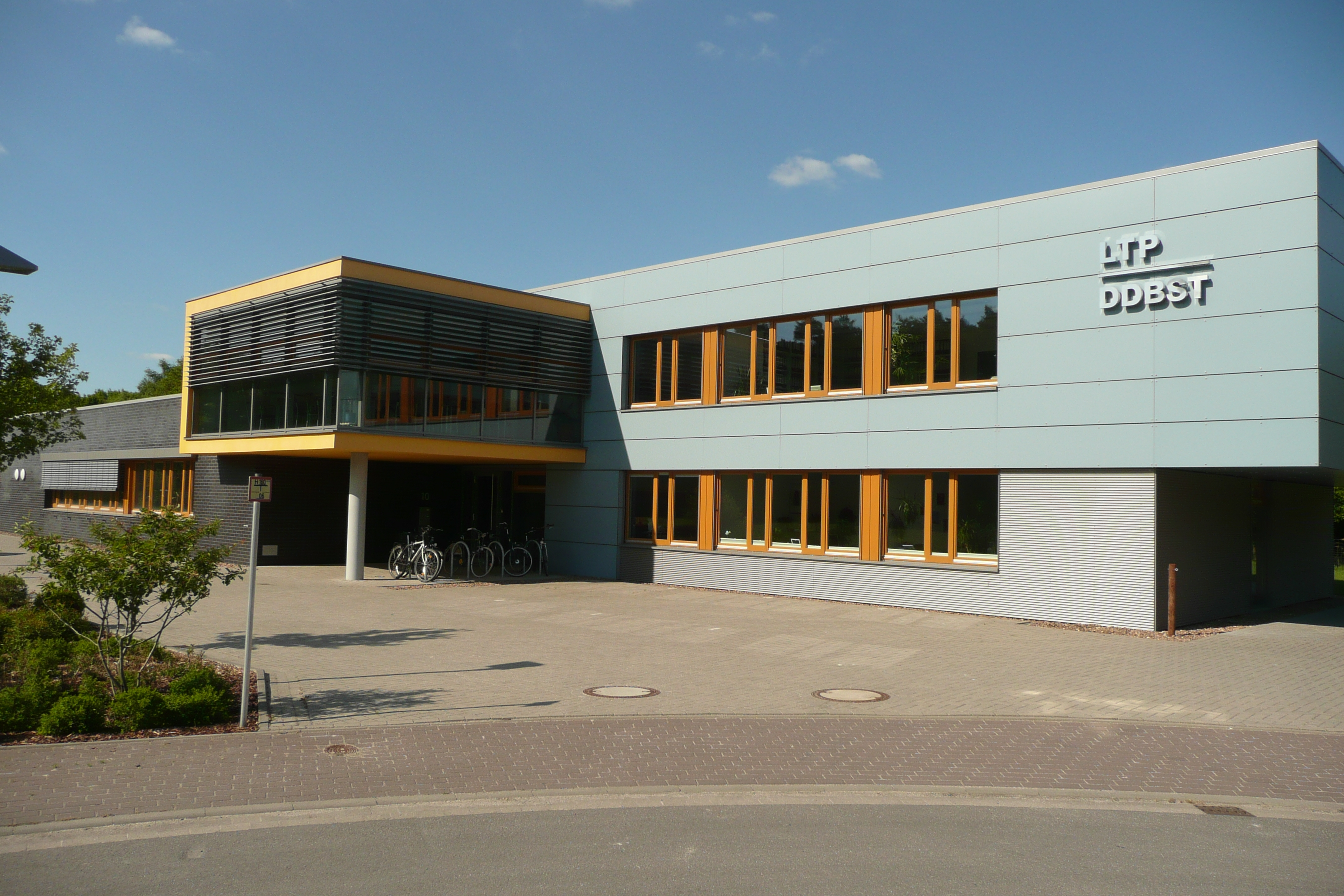 Building of the LTP GmbH - an associated institute of the Carl von Ossietzky University Oldenburg